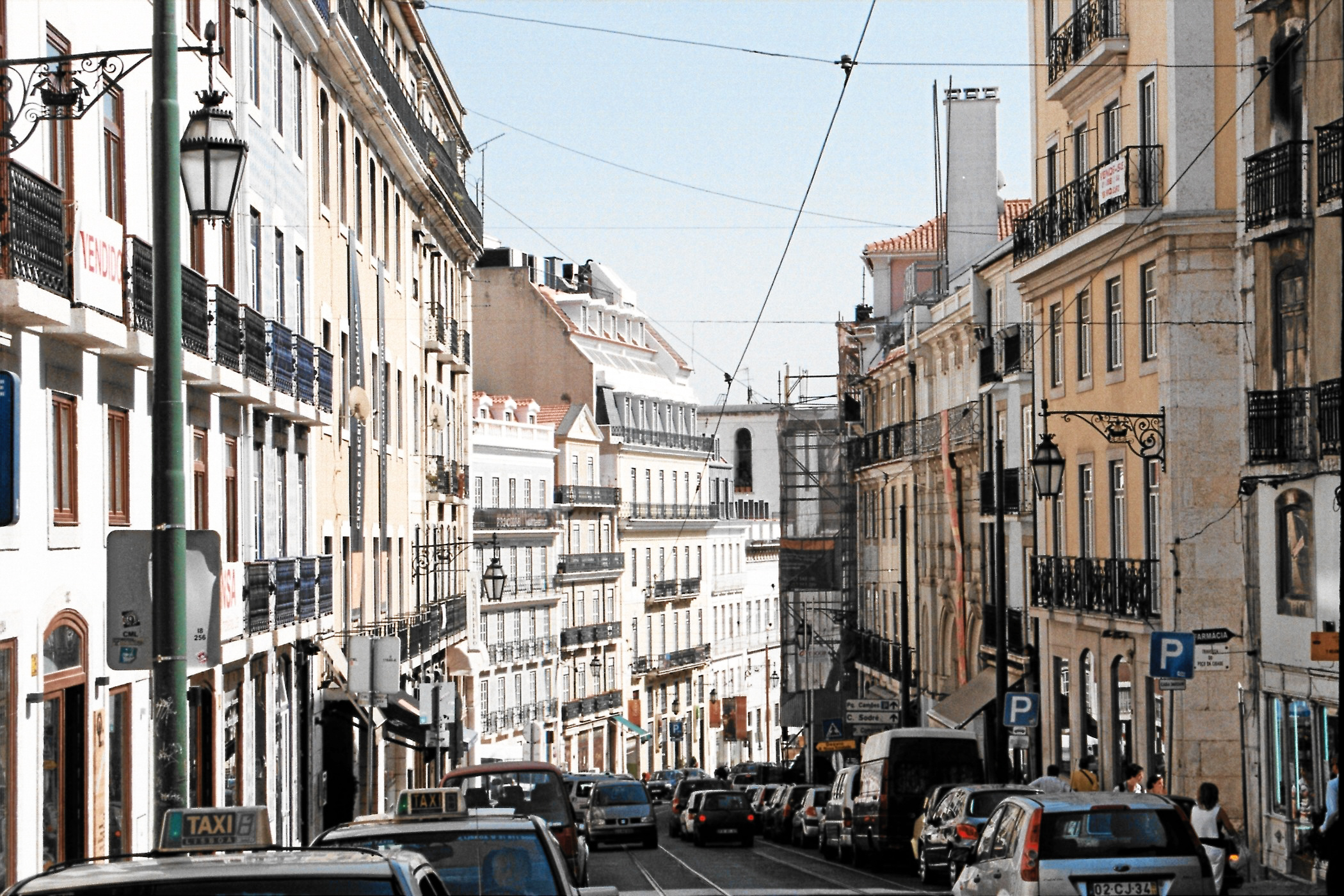 Bairro Alto, Lisbon Portugal